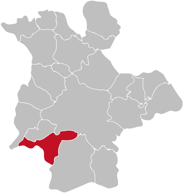 Location of the district Niederschelden within Siegen, Germany. Red/Grey colors match the color scheme of Germany maps and information boxes in German Wikipedia. District is highlighted in red.